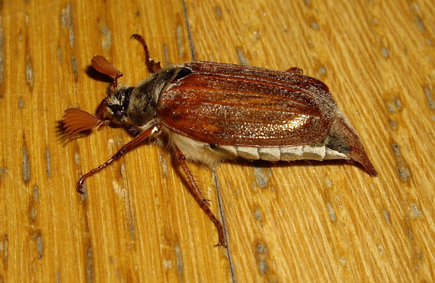 Close up on a "Ollonborre"